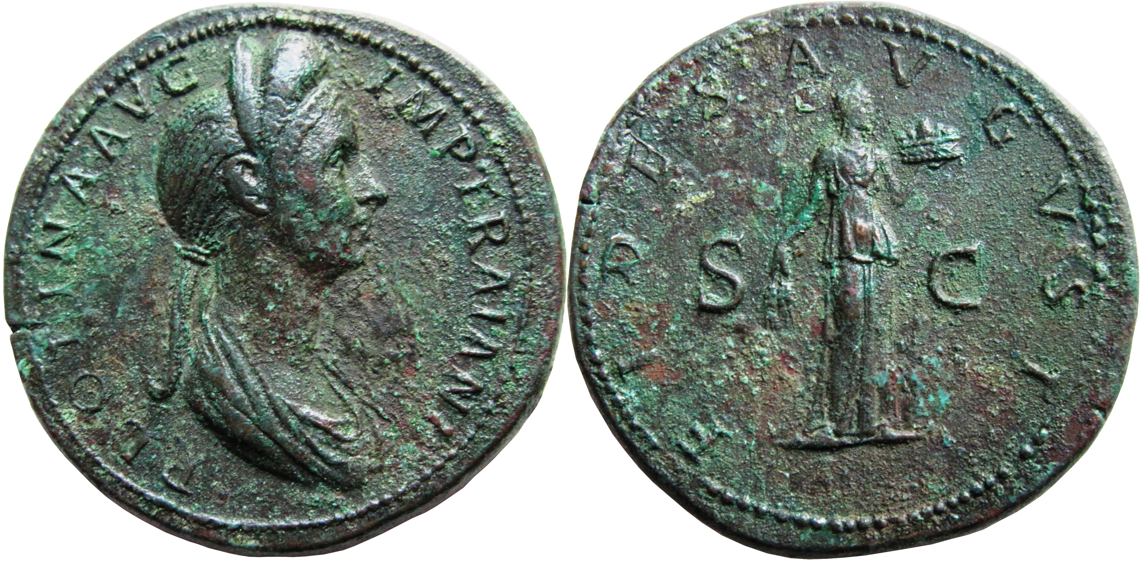 The Imperial Ronan sestertius was minted in c. 112 AD in honour of Pompeia PLOTINA, the wife of TRAJAN (emperor from 98 to 117). It is the finest natural examples of its type to survive from ancient times